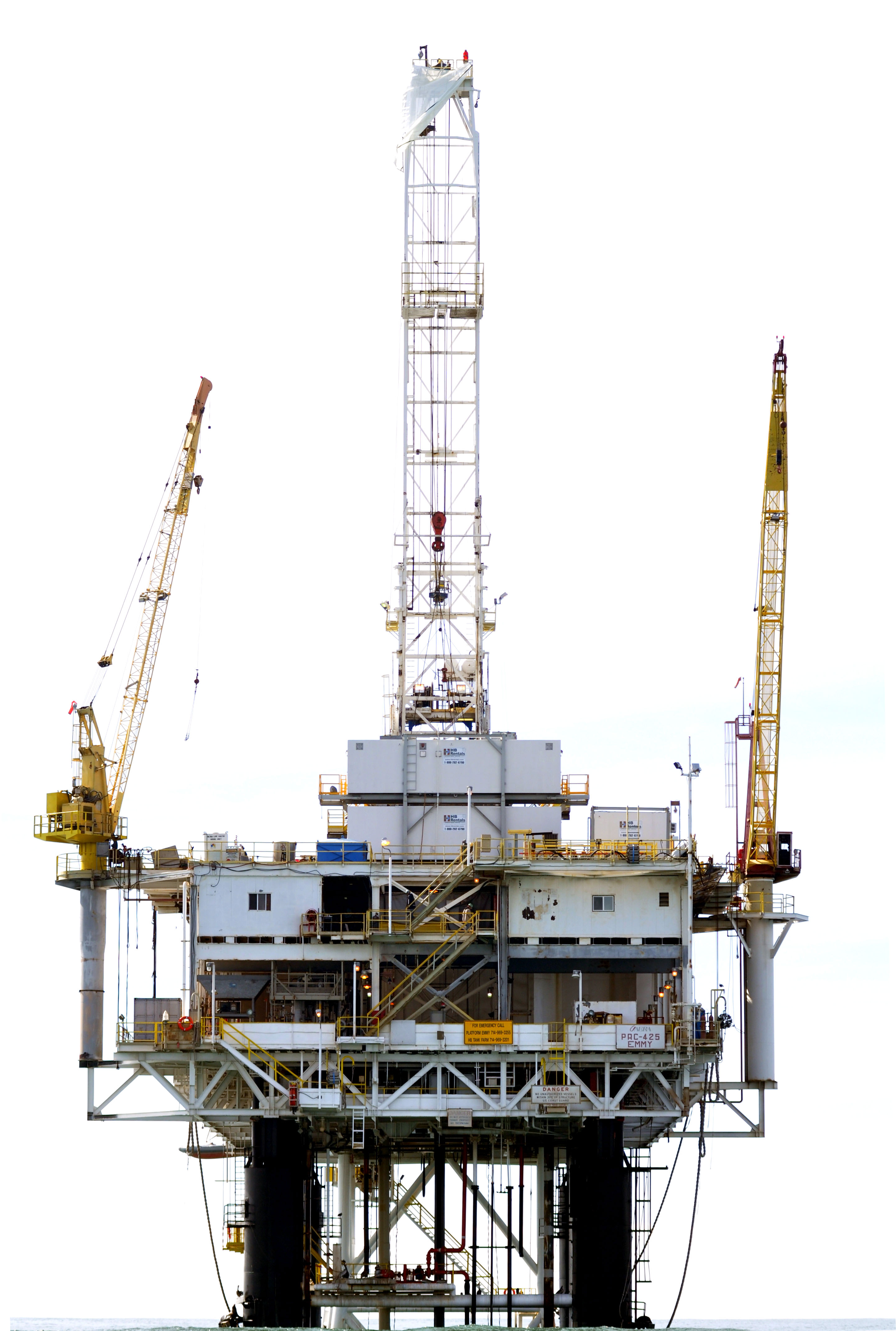 Oil Platform Emmy HB CA Photo D Ramey Logan please provide photographer credit if used outside of Wiki projects, credit to read: Photo D Ramey Logan